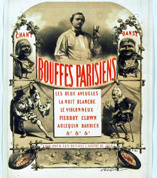 Advertising poster for the Théâtre des Bouffes-Parisiens season, 1865, by the illustrator Nadar (1820-1910). Source: ENTDN-1(NADAR,Félix)-FT6 Bibliothèque nationale de France